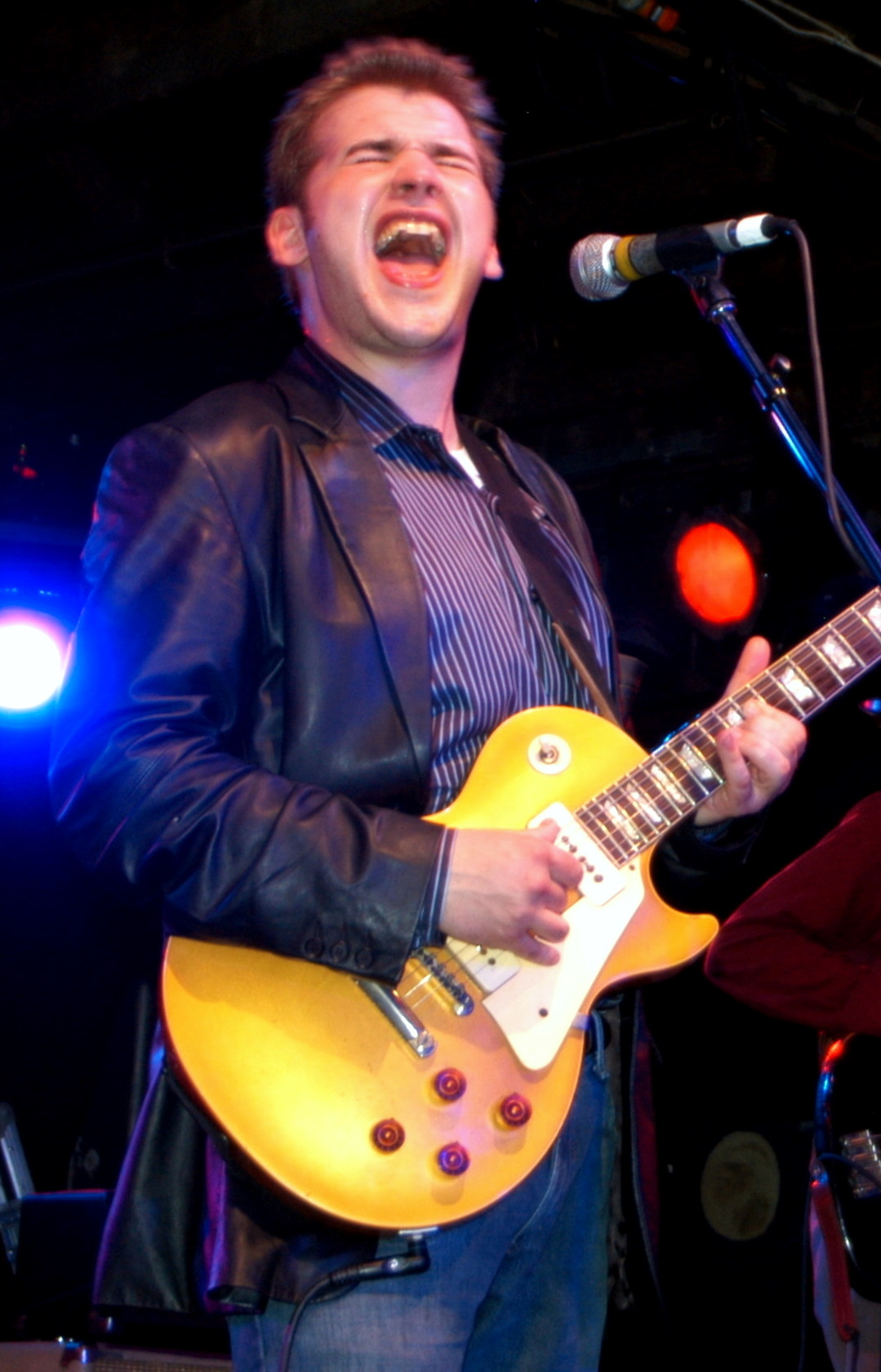 Photograph by Donald Schellhaas of Sean Costello performing at Tipitina's in New Orleans on March 11, 2005